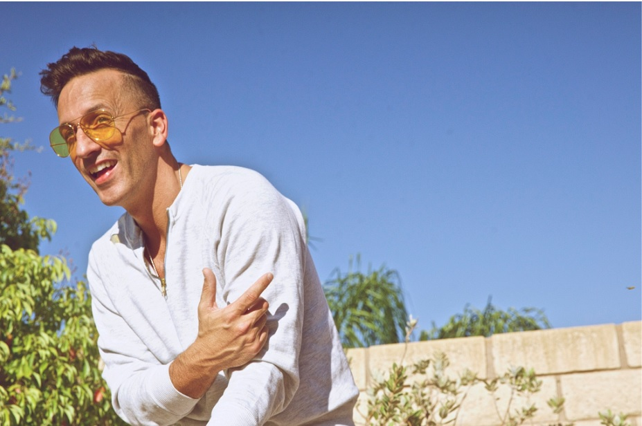 Photo of Clinton Sparks taken out back in 2018.